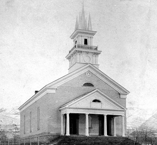 Commissioned in 1857 by President Brigham Young — who appointed Augustus A. Farnham as architect for the Greek Revival edifice and, after the Johnston's Army episode of the Utah War, called Anson Call to raise funds for and to oversee its final construction — the Bountiful Tabernacle was completed and dedicated in 1862-63, at the height of the American Civil War and at a cost of $60,000. During its two-day dedication by President Heber C. Kimball, with President Young presiding (14-15 March 1863), Anson & Mariah Bowen Call housed and fed 150 out-of-town guests and cared for 100 of the visitors' horses. Apostle Lorenzo Snow had dedicated the structural site on 11 February 1857. The best artisans and craftsmen were employed in executing the plaster casting, hand carving, and the winding stairways for the 86 x 44 foot structure. The tabernacle was constructed on a rock foundation and featured a red-pine roof secured atop adobe walls by wooden pegs. The building's roof timbers and lumber were hauled from nearby Holbrook Canyon. Since its dedication, every Prophet-President of the Church (save Joseph Smith) has spoken from its pulpit. Today, the Bountiful Tabernacle, completed 5 years before the Salt Lake Tabernacle, remains the oldest surviving Mormon tabernacle and the oldest LDS Church meetinghouse in continuous use.[1][2]